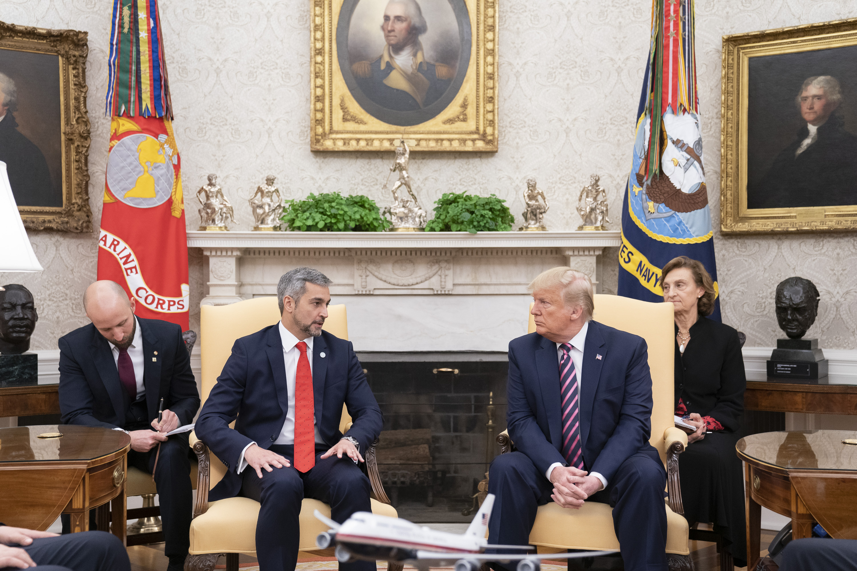 President Donald J. Trump participates in an expanded bilateral meeting with Paraguay President Mario Abdo Benitez Friday, Dec. 13, 2019, in the Oval office of the White House. (Official White House Photos by Joyce N. Boghosian)